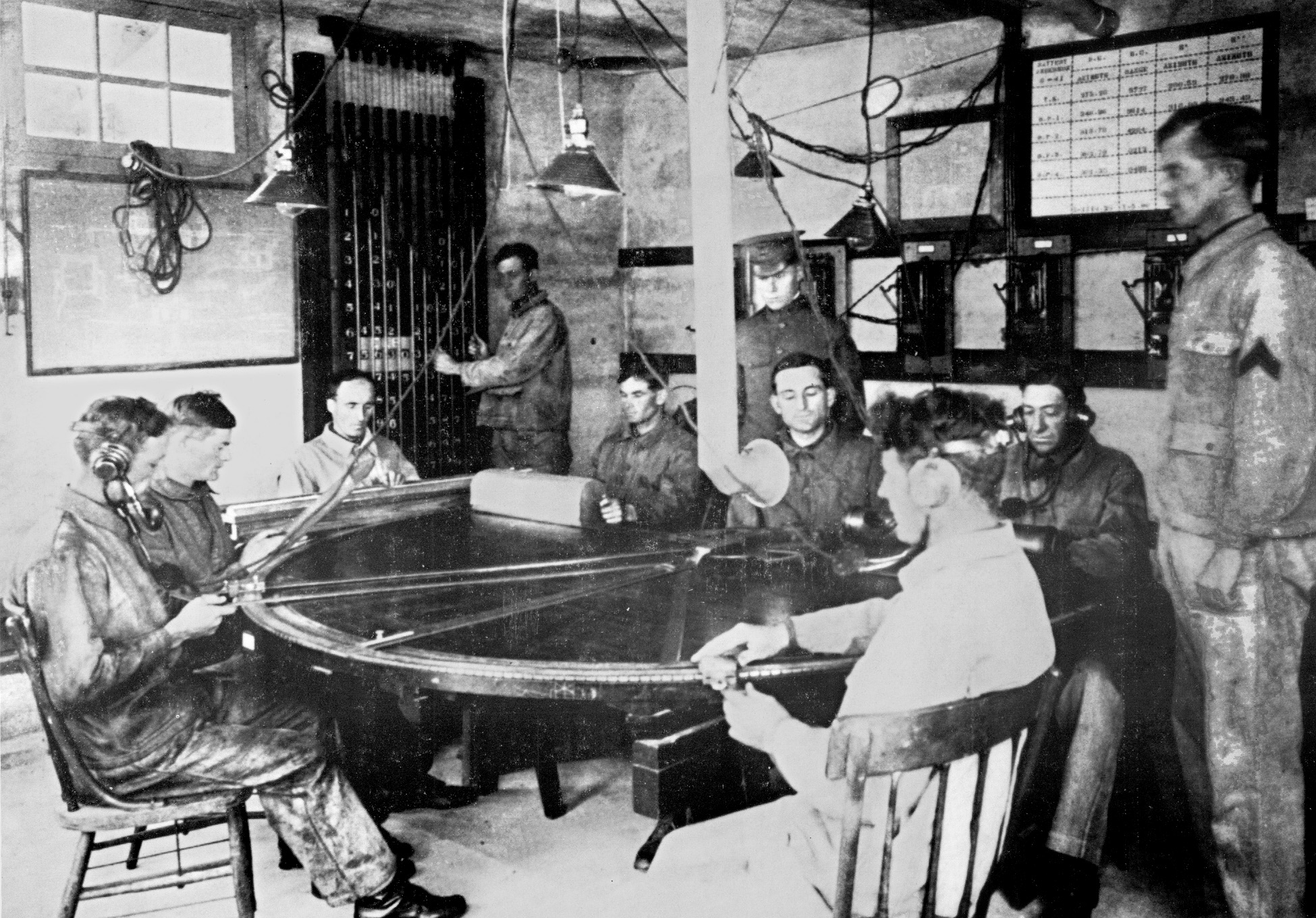 This photo of a U.S. Coast Artillery plotting room probably dates from the 1920s. The semi-circular "table" is a Whistler-Hearn plotting board. The two soldiers closest to the camera (wearing telephone headsets) are the plotting board arm setters, setting the primary and auxiliary arms of the plotting board to azimuths called in by observers at the battery's two base end stations. The soldier seated at center-rear of the photo is likely operating a range correction board, used to quantify various factors that would affect the range achieved by a shell fired from one of the guns. The soldier seated at the right of the photo (wearing a headset) is likely operating a deflection board, used to quantify factors that would affect the direction (or azimuth) of a shell being fired. Both of these pieces of equipment were used to obtain corrected firing data. The three windowed pieces of equipment on the rear wall are likely recorders for meteorological data (temperature, wind speed, wind direction, barometric pressure) used to make some of these corrections. This plotting room appears to have been partially above ground, although many were completely buried for protection from counter fire. The light-colored tube in the rear-center appears to be a speaking tube, which may run up to a Battery Commander's position above the plotting room, or to an observation or gun position.